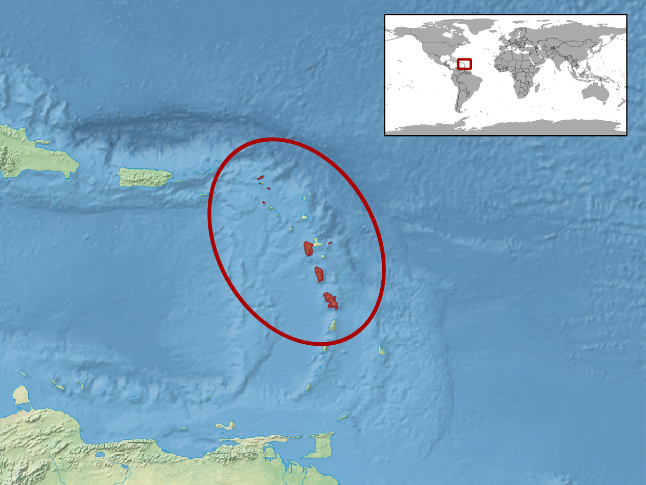 geographic distribution of Iguana delicatissima (Native: Anguilla; Dominica; Guadeloupe; Martinique; Saint Barthélemy / Regionally extinct: Antigua and Barbuda; Saint Kitts and Nevis; Saint Martin (French part))